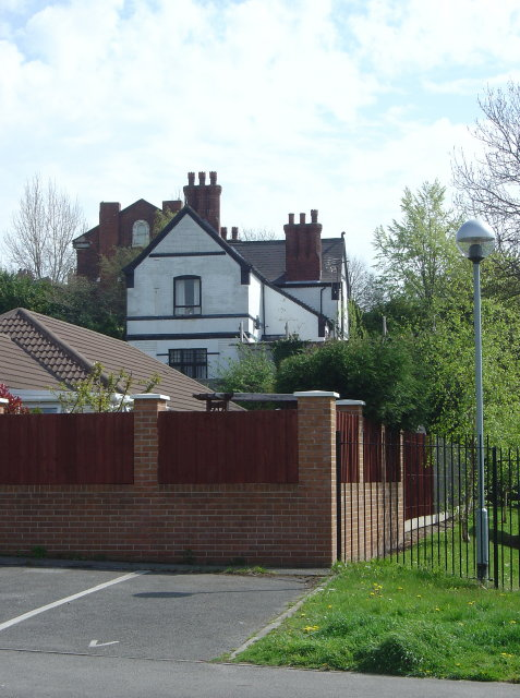 Thorneywood Station The white building is the former station building of Thorneywood Station on the former Nottingham Suburban line of the Great Northern Railway. The railway itself was at the lower level where the modern development in the foreground has been built.